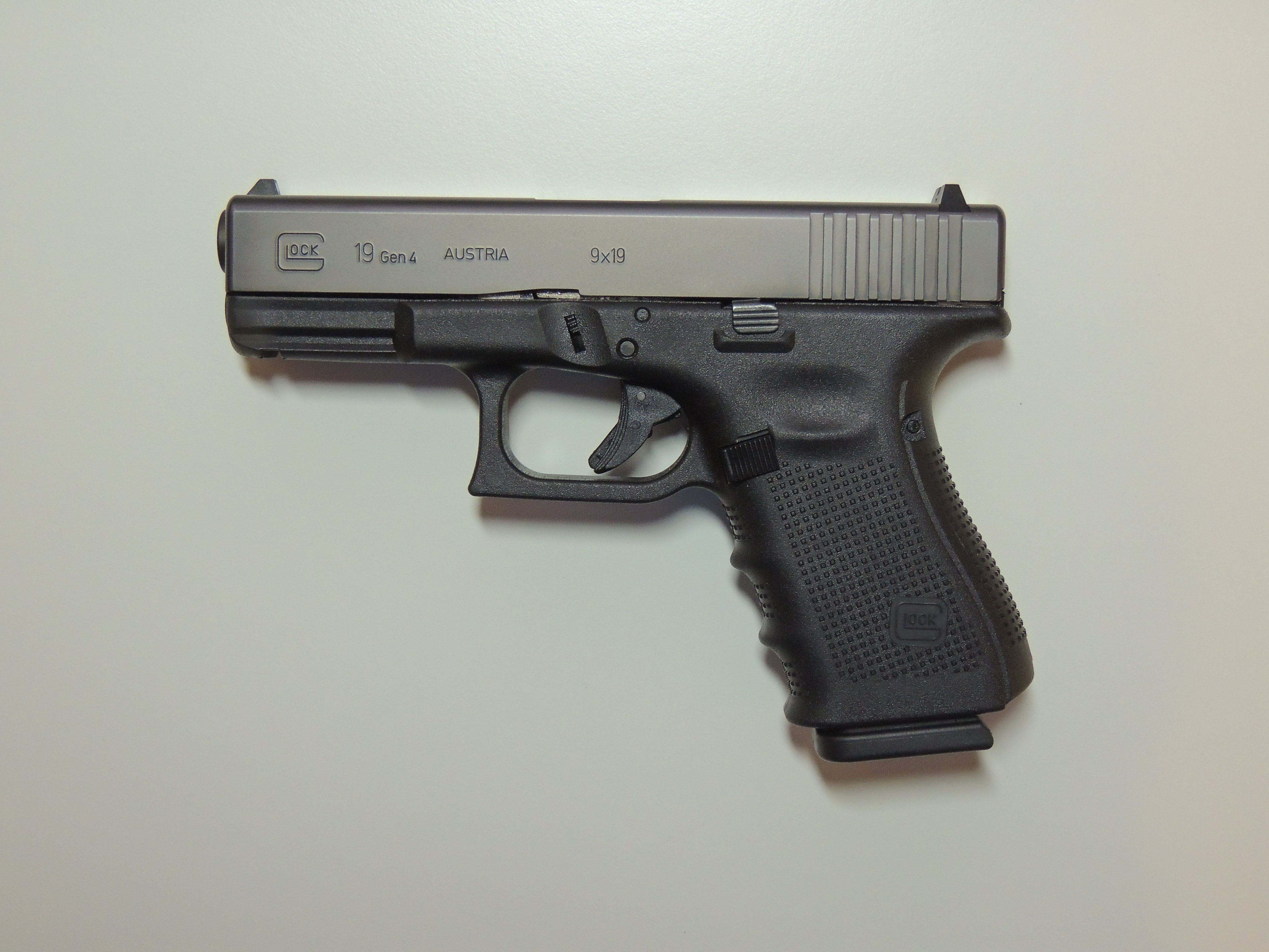 Glock pistol